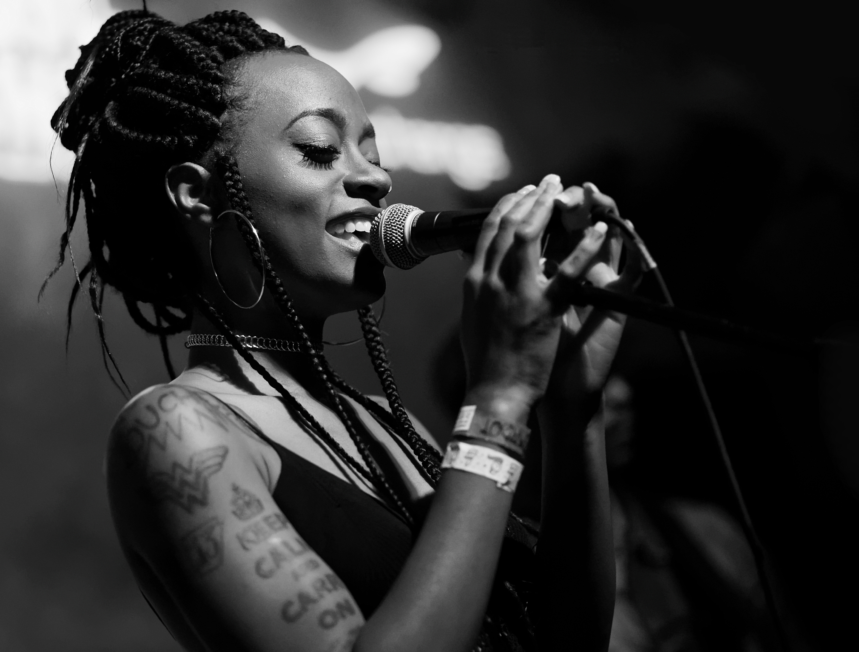 Kari Faux performing live at "It's a School Night" at Bardot Hollywood in Los Angeles California on Monday August 15th, 2016.